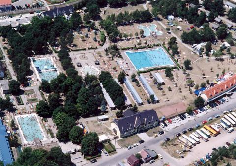 beach, Bogács, Hungary, aerial photography